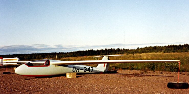 Glider KK-1e Utu in Tampere.